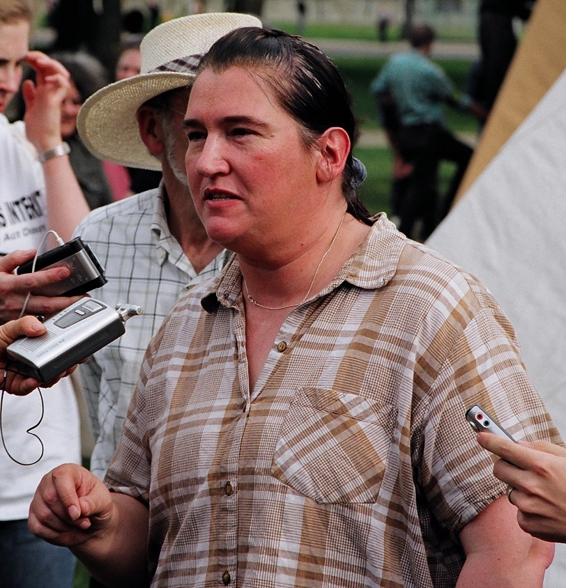 Ardoch Algonquin First Nation Chief Paula Sherman, speaking at a protest at Queen's Park, Toronto, Ontario.